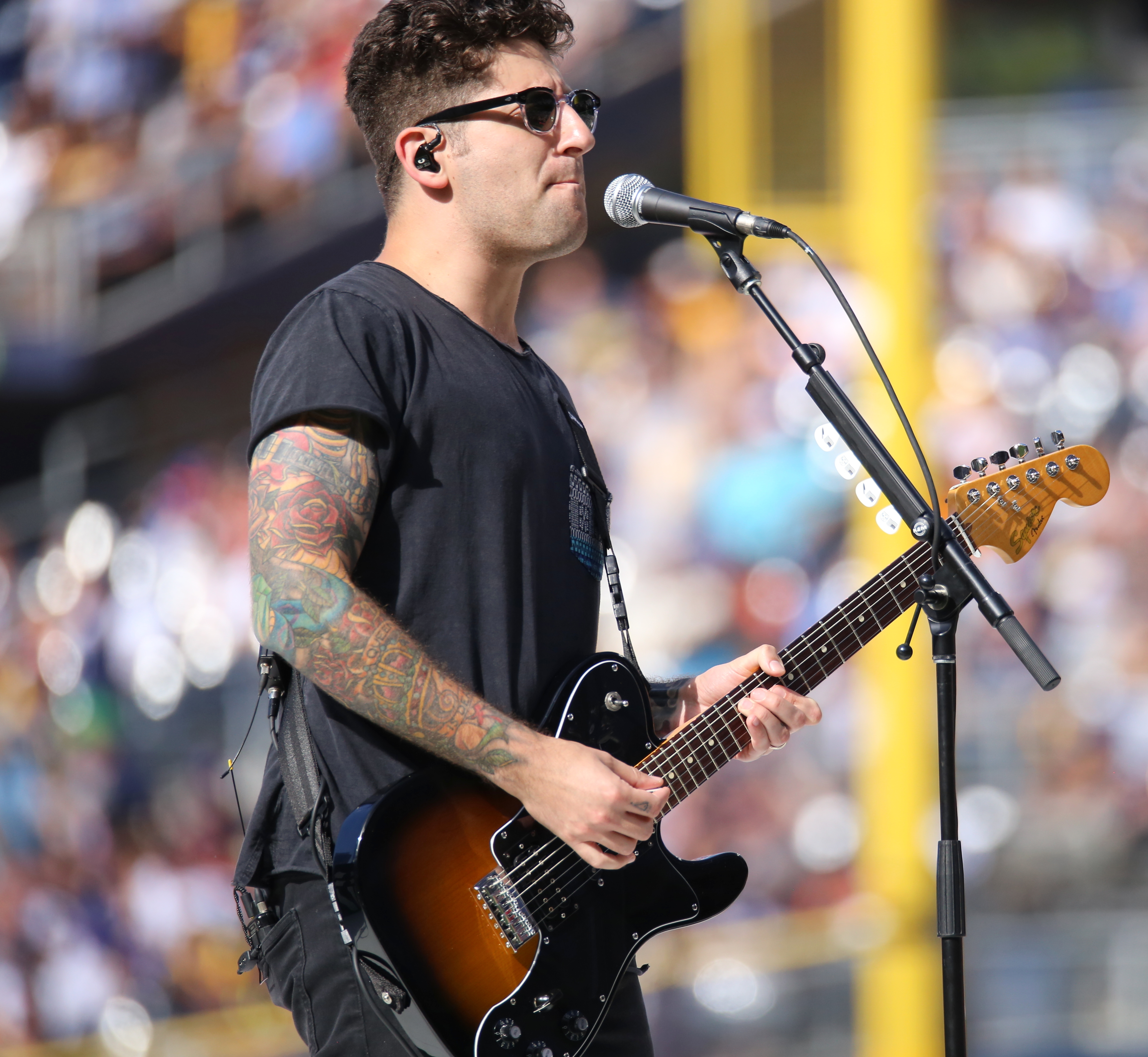 Fall Out Boy's Joe Trohman performs to open the 2016 T-Mobile #HRDerby.